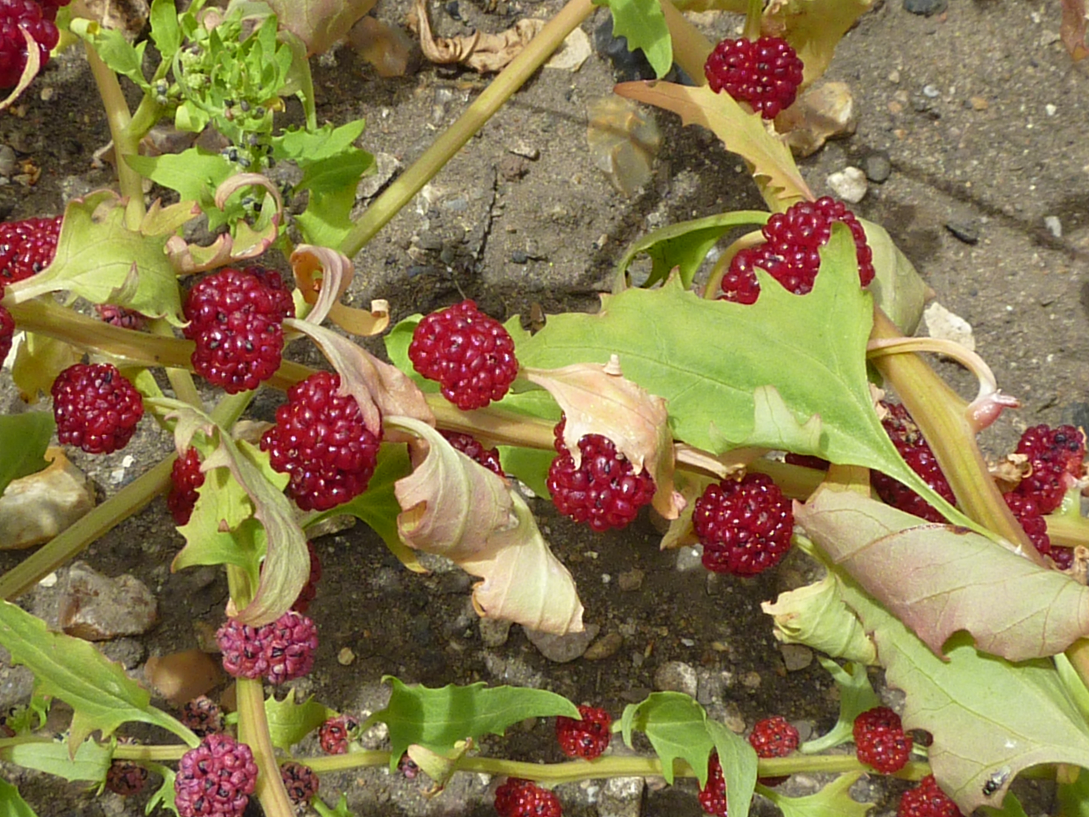 Chenopodium foliosum Asch., Taken in the Cambridge University Botanic Garden